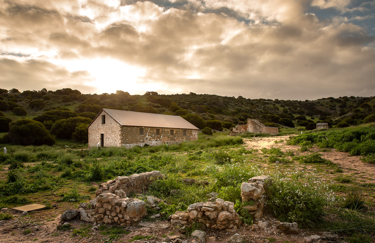 Lynton Convict Hiring Depot Ruins, Yallabatharra, Northampton Shire, Western Australia